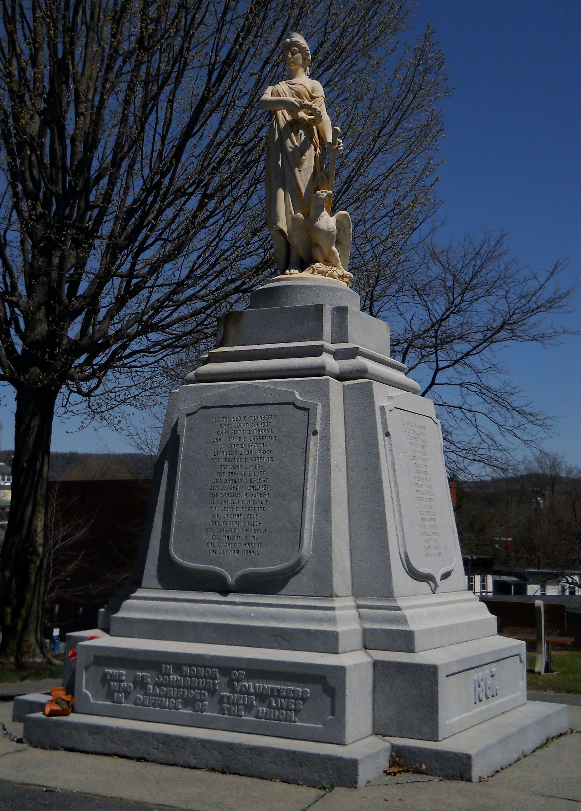 This monument is located in the courthouse park in St. Johnsbury, Vermont. Below the long list of names it says, "In honor of the St. Johnsbury volunteers who sacrificed their lives in defense of the Union." 1867